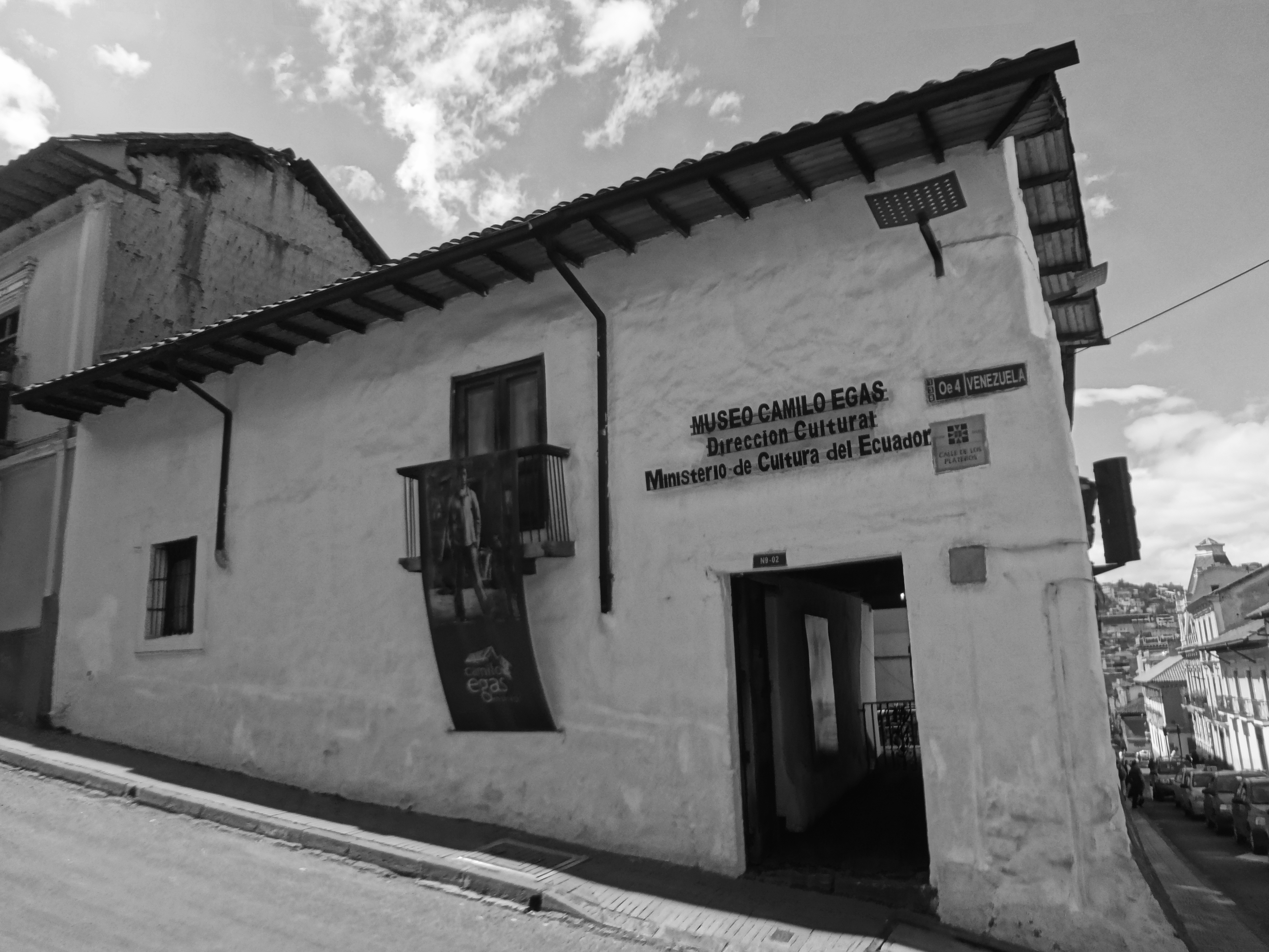 Museo Camilo Egas del Ministerio de Cultura y Patrimonio, Ecuador (Exterior) Calle Venezuela, Quito Author David Adam Kess photographed in black and white by David Adam Kess